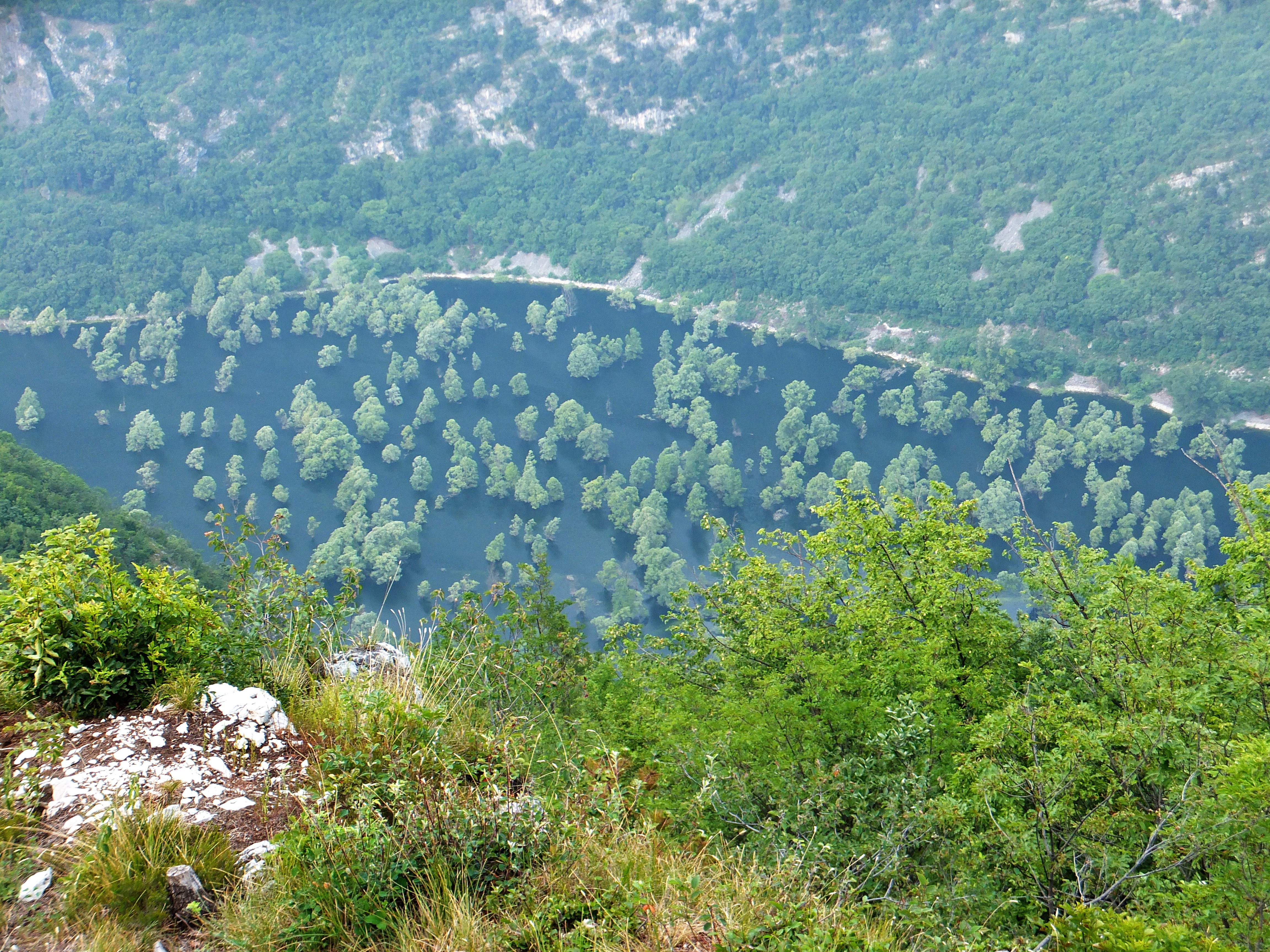 The view of Lake Loppio (Lago di Loppio) from Doss Alto di Nago